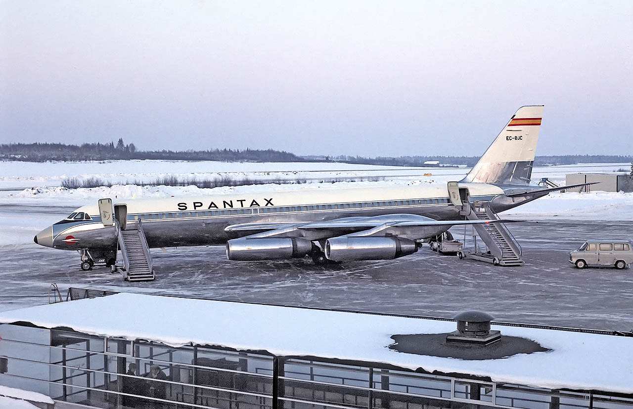 EC-BJC (cn 30-10-22) at Stockholm - Arlanda (ARN / ESSA) Sweden, February 1969